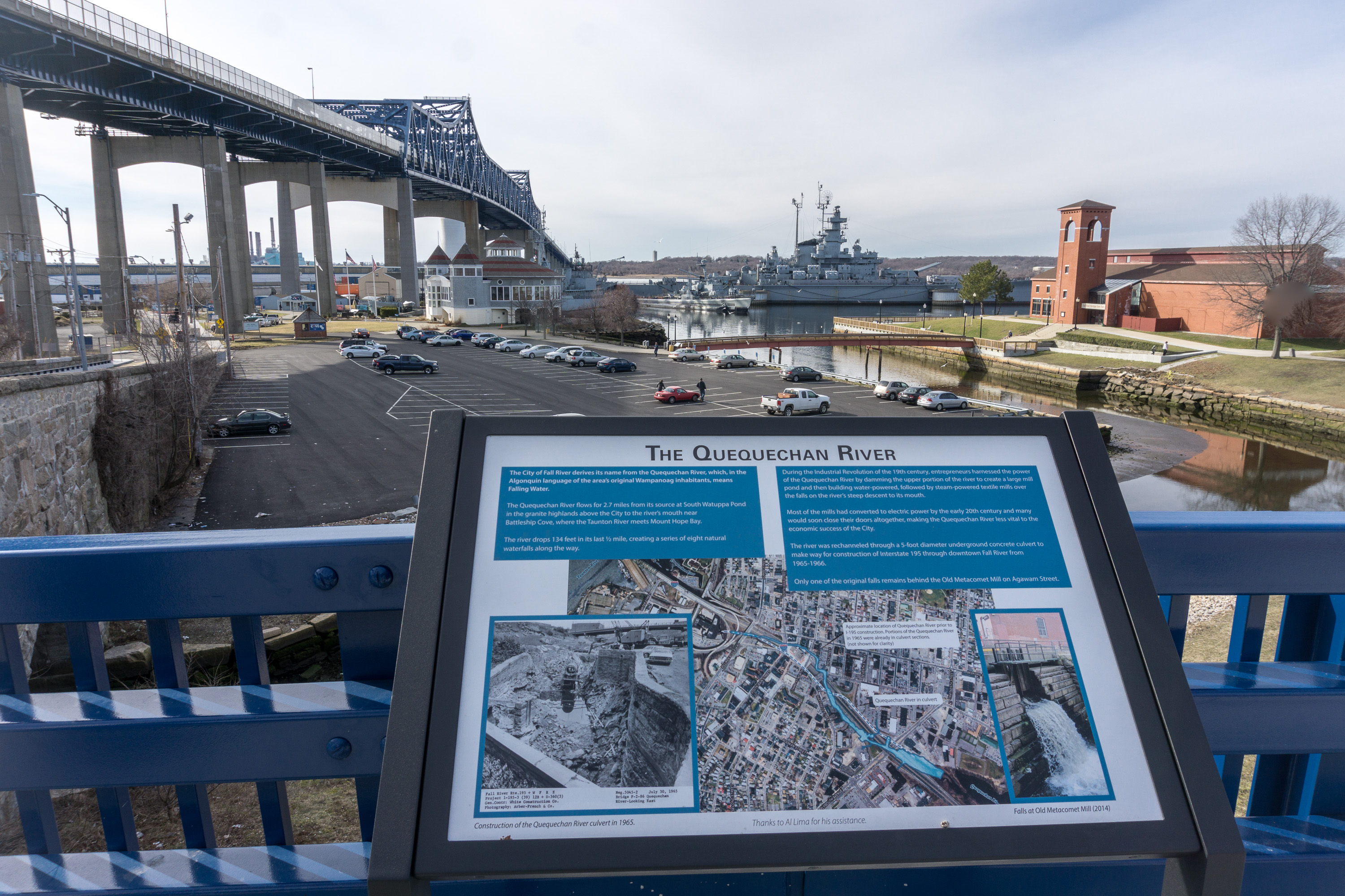 A sign off the road next to and above Fall River Heritage State Park tells about the route and history of the Quequechan River. Fall River, Massachusetts.